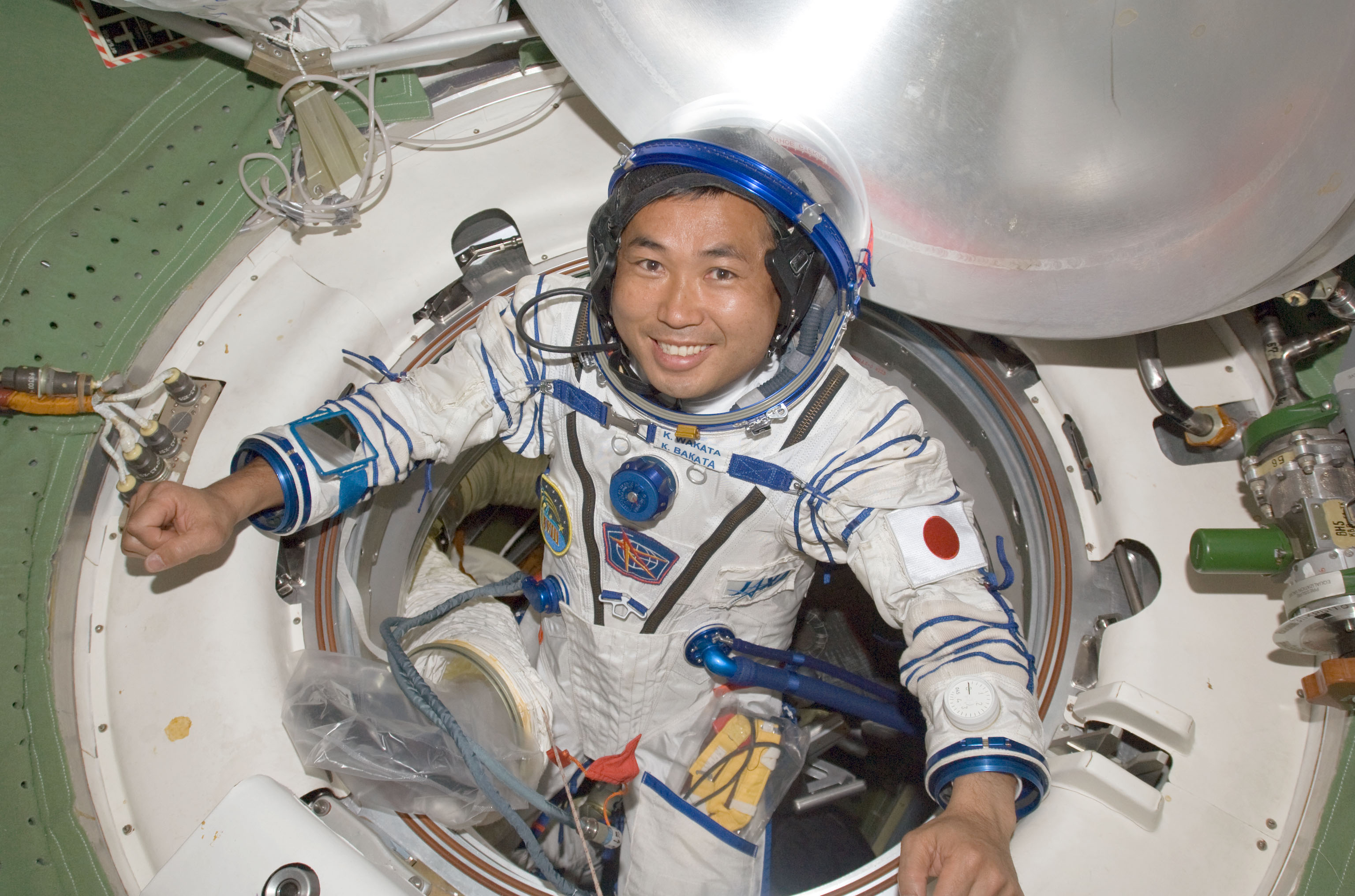 Japan Aerospace Exploration Agency (JAXA) astronaut Koichi Wakata, Expedition 18 flight engineer, attired in his Russian Sokol launch and entry suit, is pictured near a hatch on the International Space Station while Space Shuttle Discovery (STS-119) remains docked with the station.